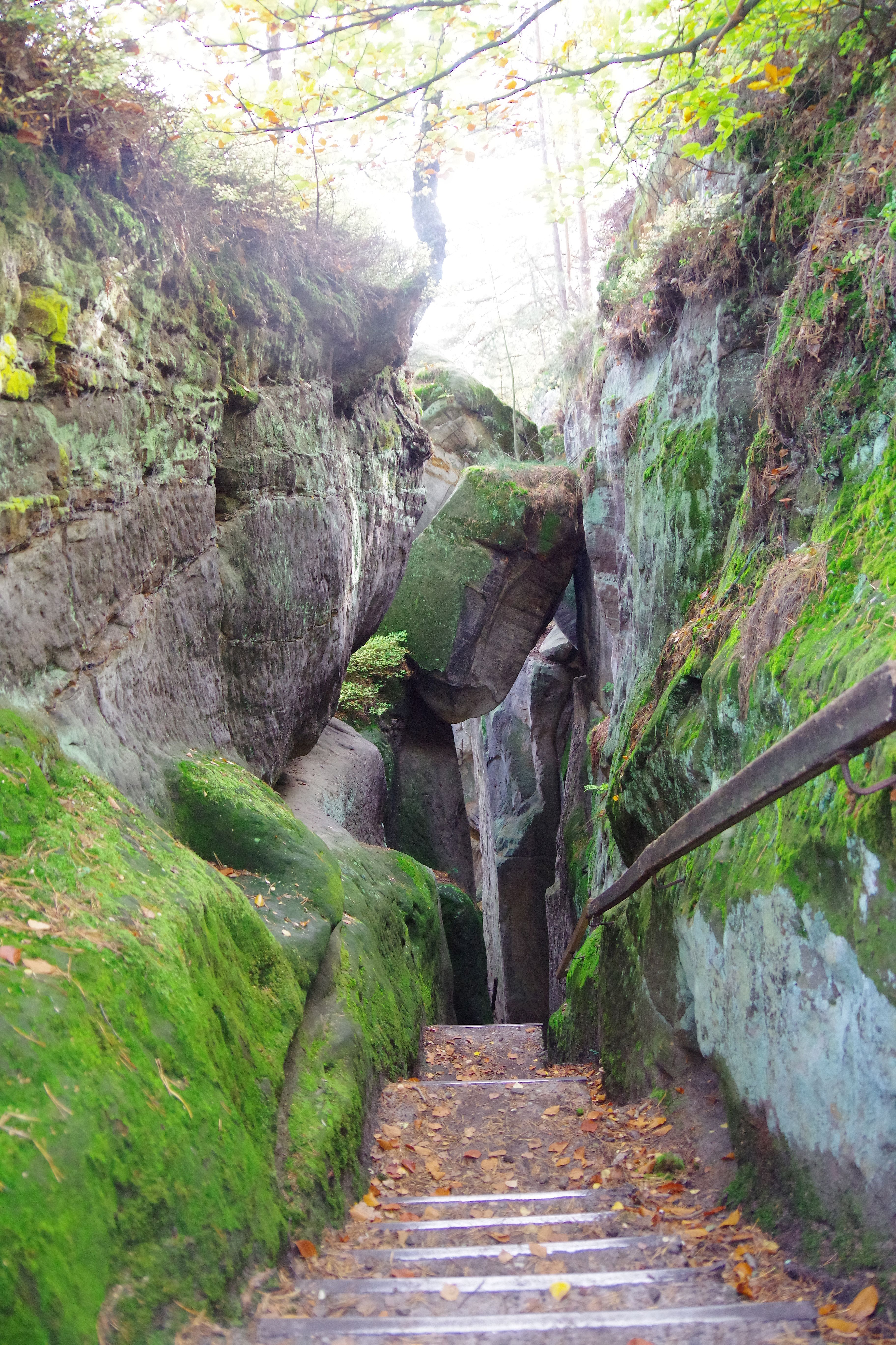 Passage in Klokocske skaly.